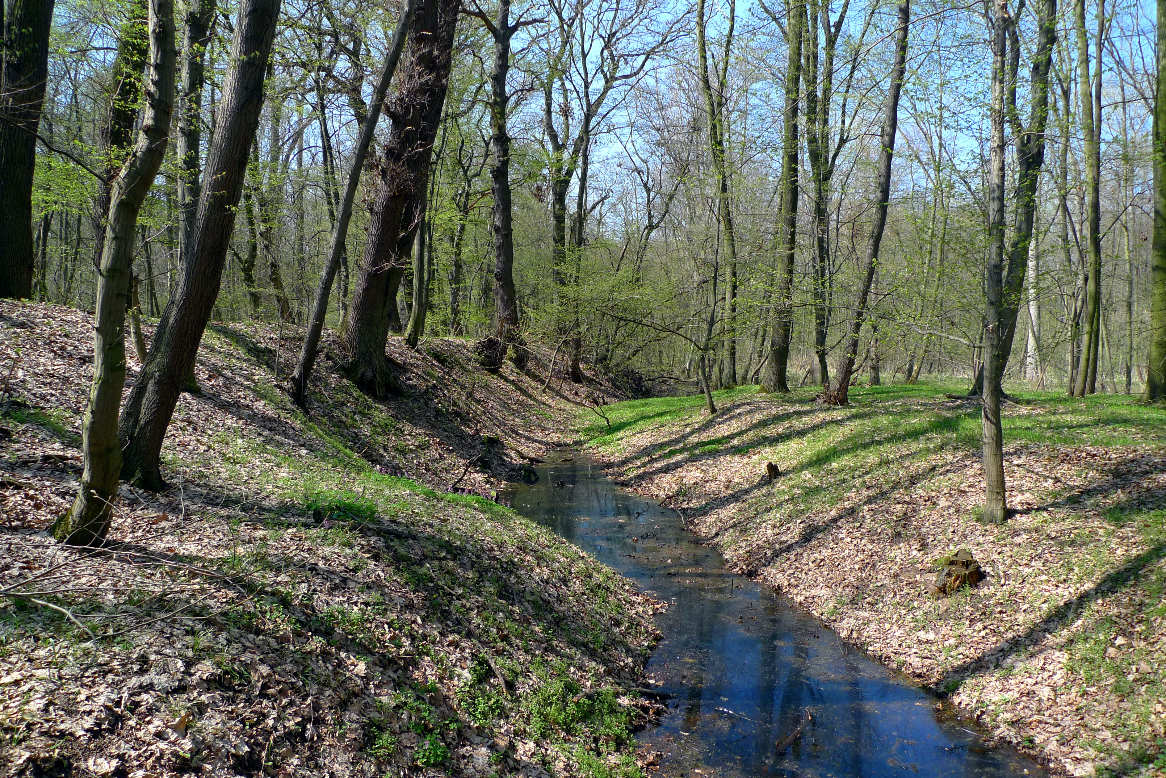 Hrbáčkovy tůně nature reserve and Budečská hráz in Central Bohemia, Czech Republic. Česky: Přírodní rezervace Hrbáčkovy tůně a Budečská hráz ve Středočeském kraji.